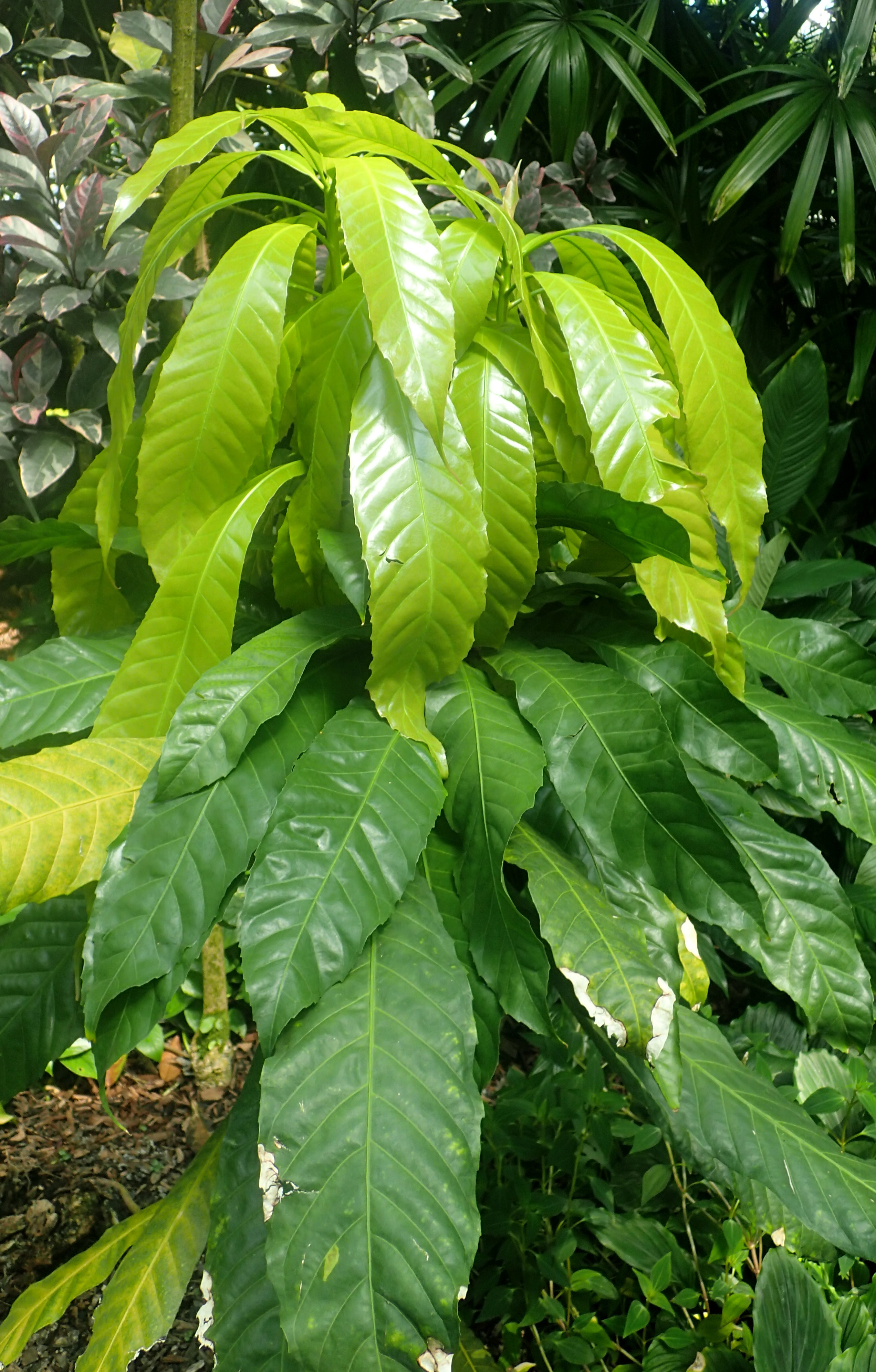 Gustavia superba in the Missouri Botanical Garden, St. Louis